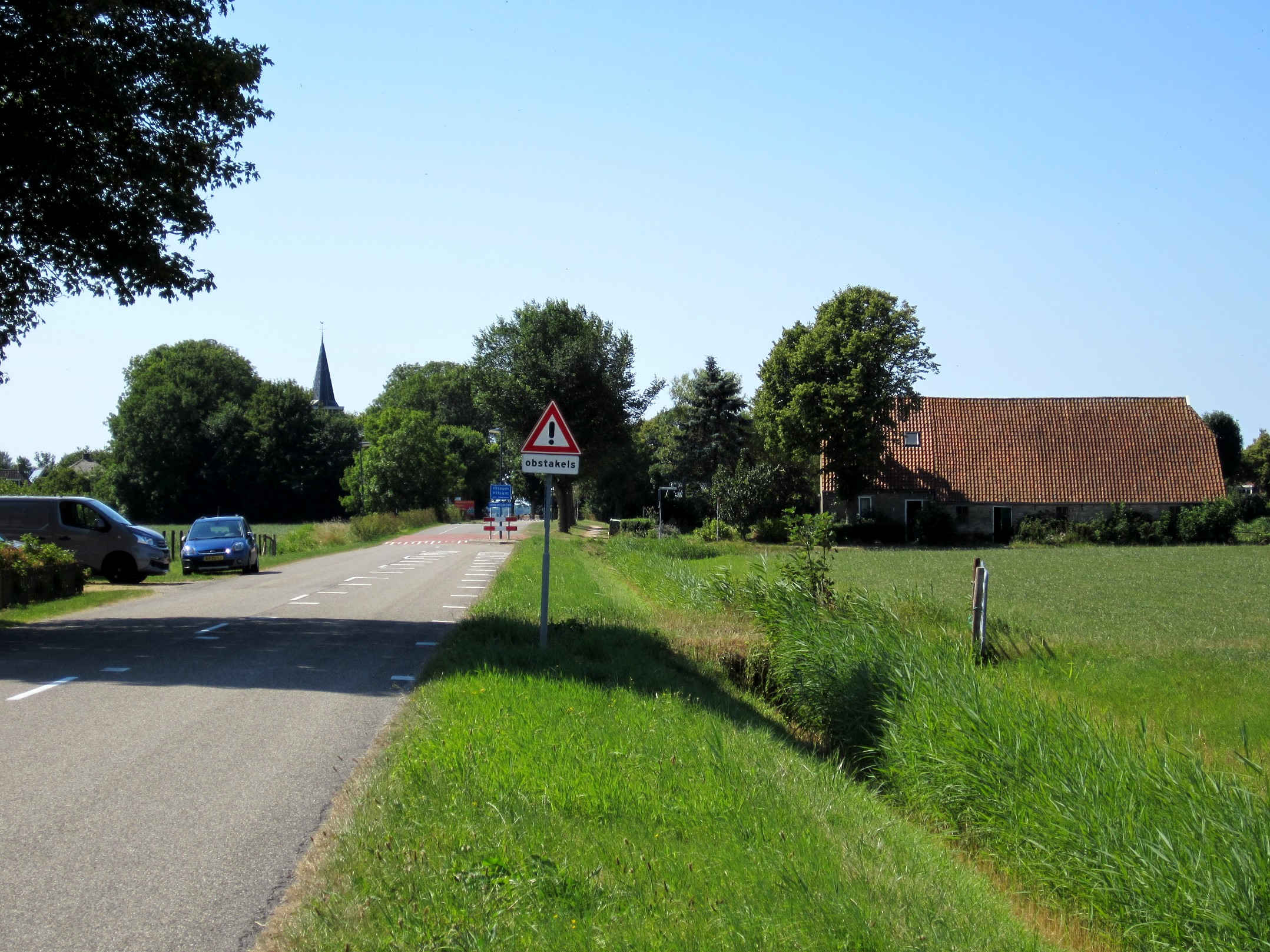 The village of Hitzum (Frisian: Hitsum) in Friesland, the Netherlands, as seen from the south side.